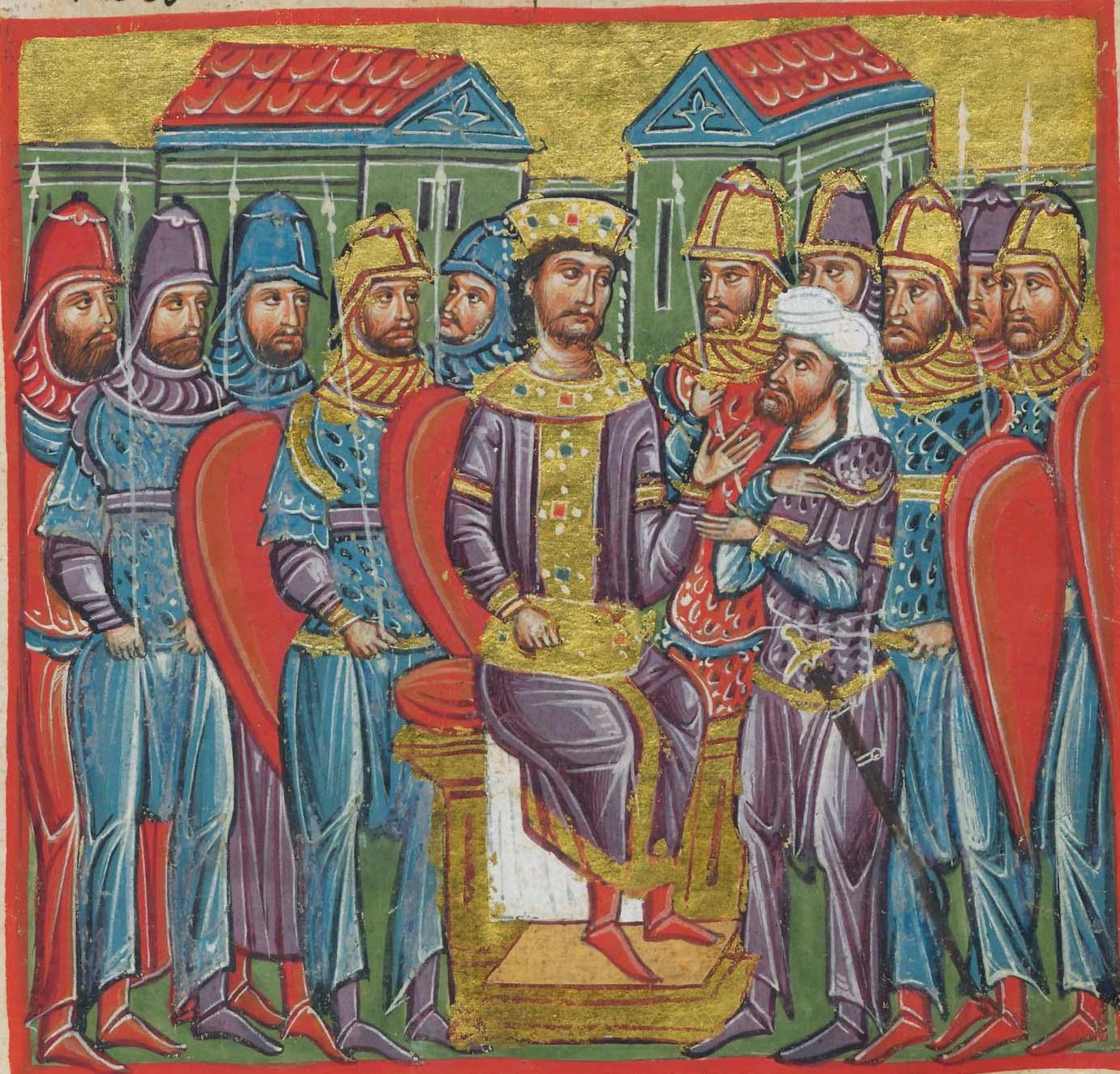 (Borders cropped) A fourteenth-century miniature Greek manuscript depicting scenes from the life of Alexander the Great. Alexander reinforced his outposts with many thousands of men, armed with golden cuirasses, commanded the most reliable to remain and guard and proclaimed Seleucus as the head of the army. Alexander here is depicted on the throne, in the centre of the illustration, giving the command to Seleucus who is shown wearing a turban. To the left and right of the throne numerous soldiers are depicted wearing the bracca (βράκκα) trousers and armor. The entire scene is depicted entirely in Byzantine fashion of the late Byzantine period (1204-1453). “Alexander Romance” in S. Giorgio dei Greci in Venice.’’